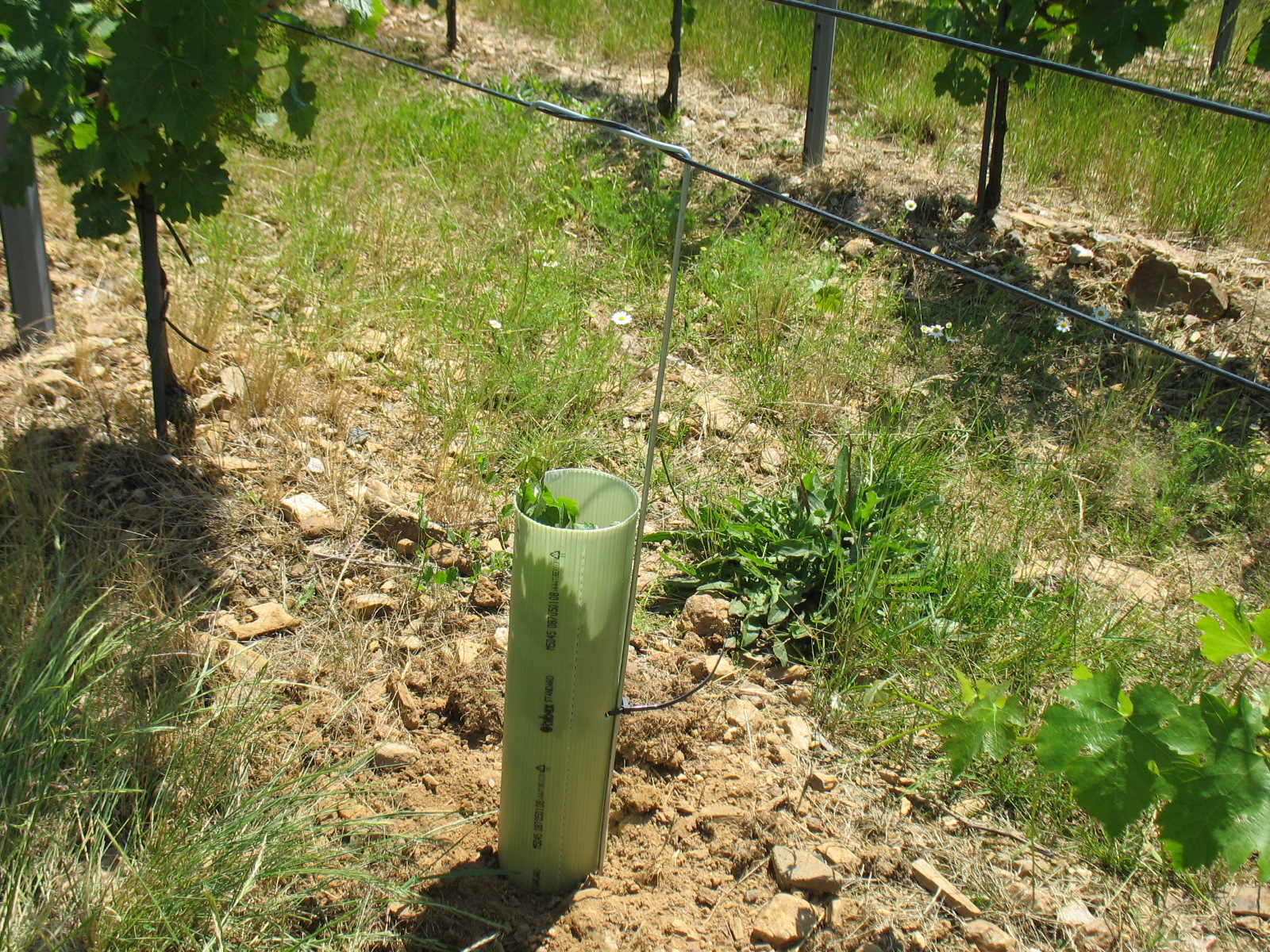 Vineshelter in Anjou France